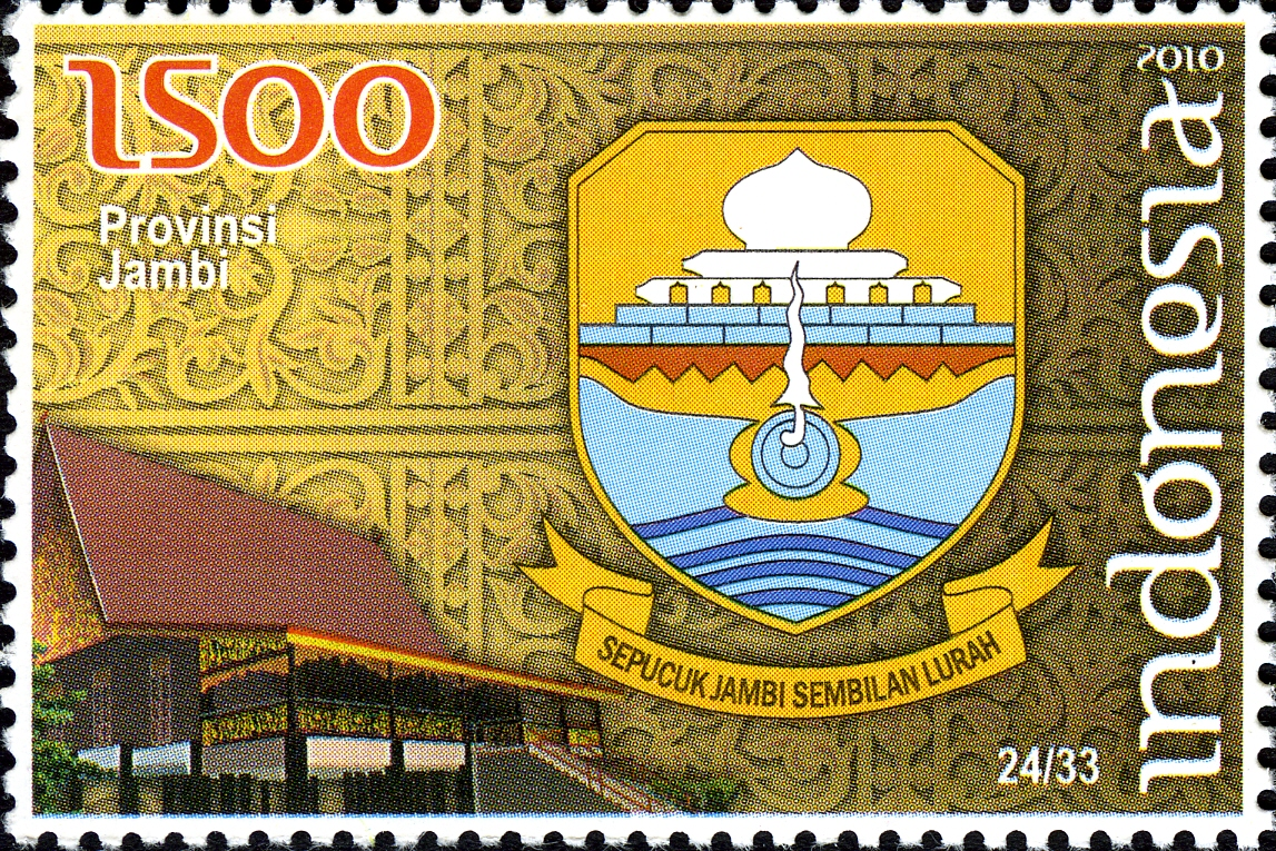 Stamps of Indonesia